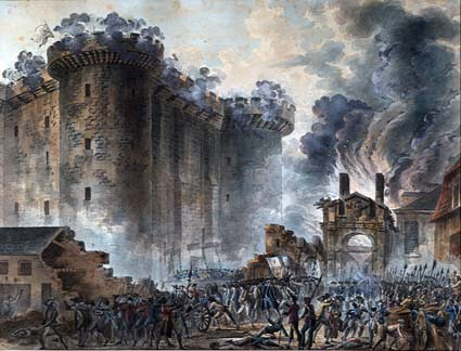 storming of bastille